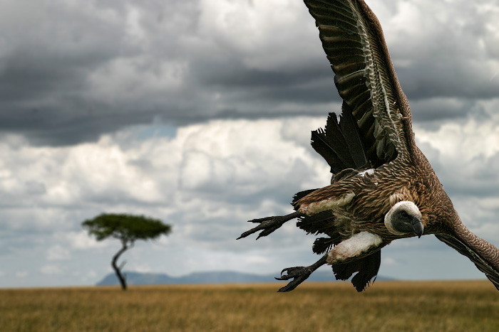 Vulture getting ready to strike a dying prey, Kenya